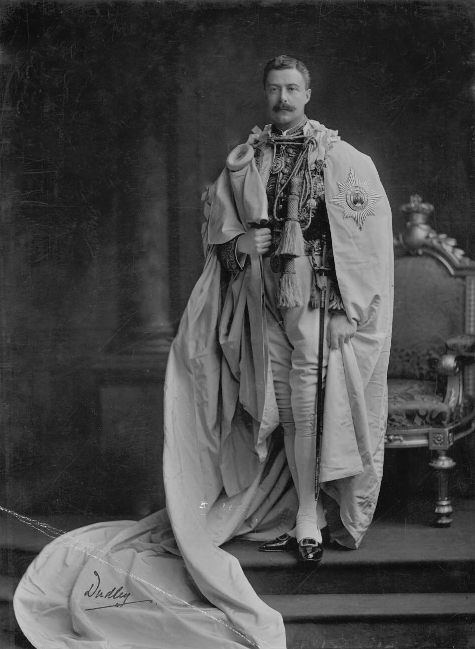 William Humble Ward, 2nd Earl of Dudley (1867-1932), apparently in his uniform as Grand Master of the Order of St. Patrick and wearing the Irish Crown Jewels